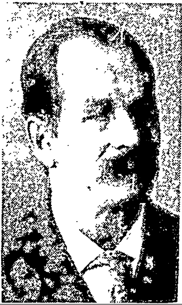 Sidney (or Frank) Illidge, steward of the steamer Mascot, killed in the fire and explosion of that vessel in March, 1911.